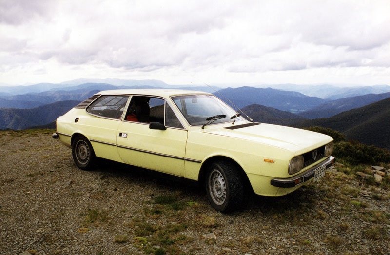 Lancia Beta HPE 1978 model, RHD Australian delivery